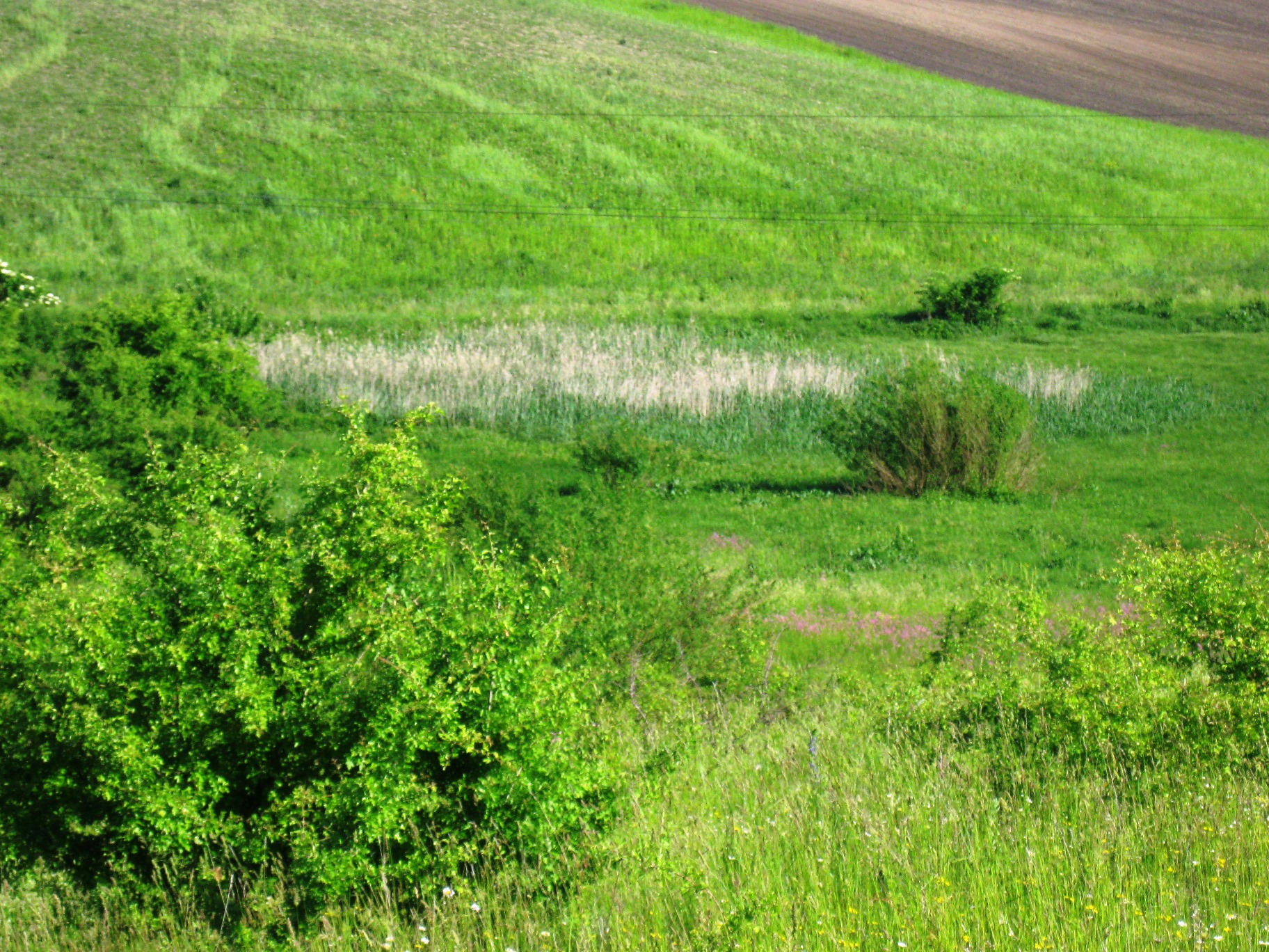 The source of the Ustia River